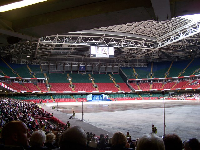 Millennium Stadium, Cardiff Jehovah's Witness convention inside the stadium